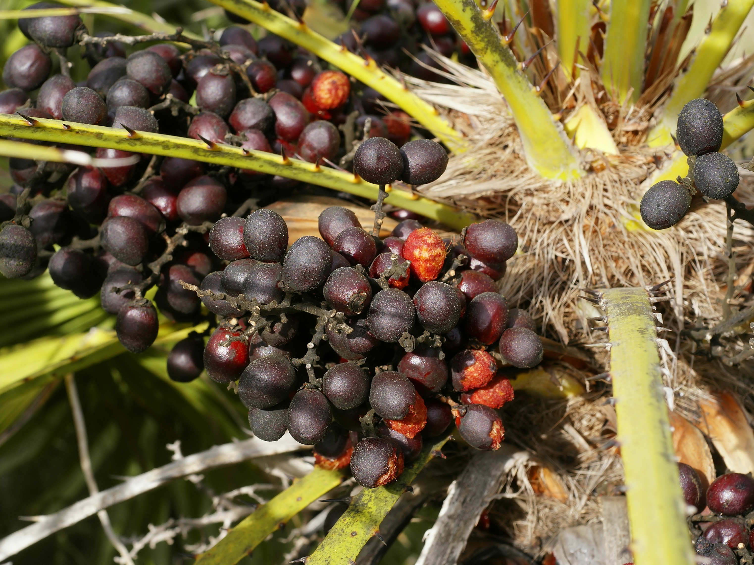 Plant near el Perelló, Catalonia, Spain